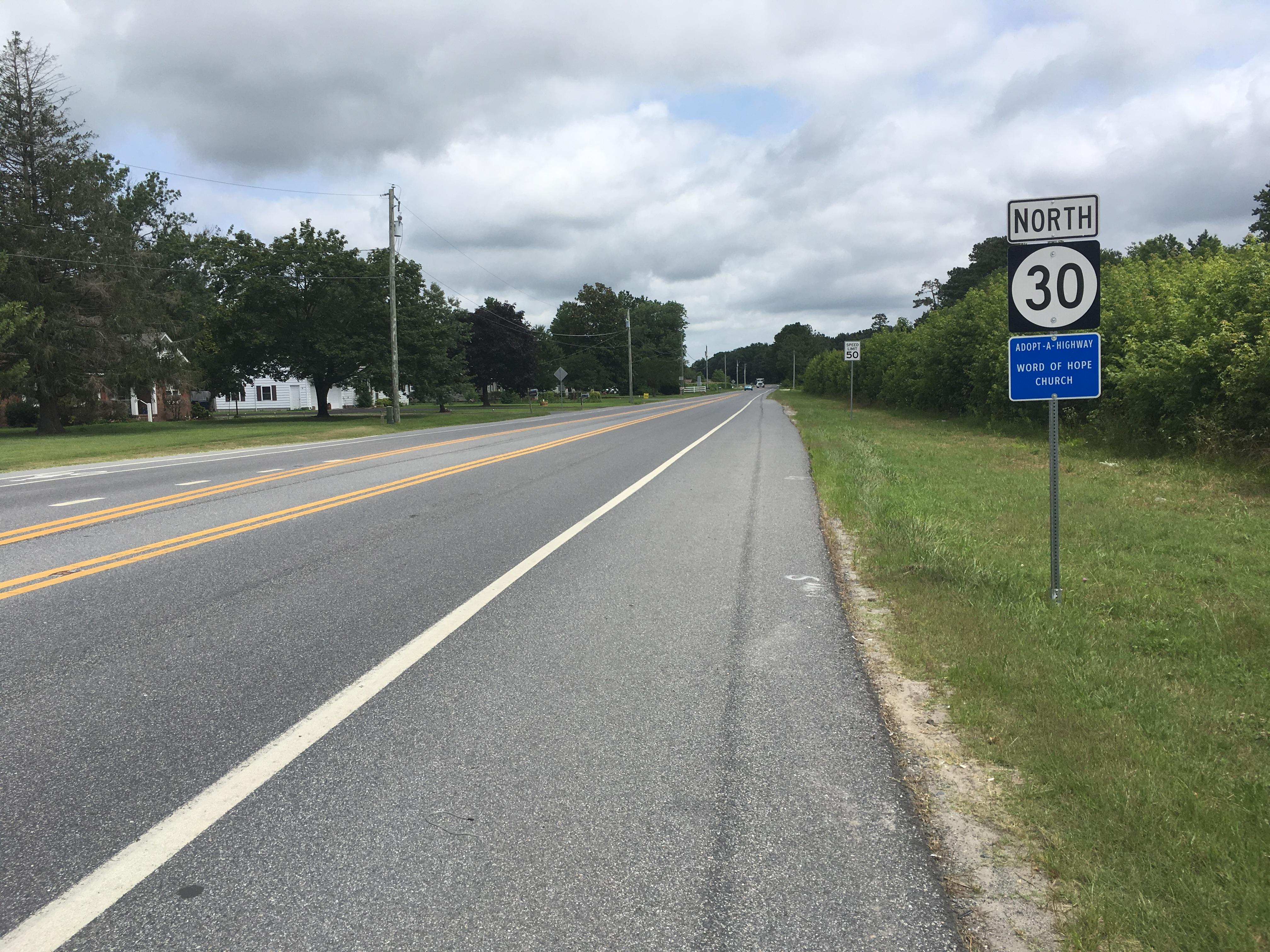 Northbound Delaware Route 30 (Gravel Hill Road) past the intersection with U.S. Route 9/Delaware Route 404 (Lewes Georgetown Highway) in Gravel Hill, Delaware